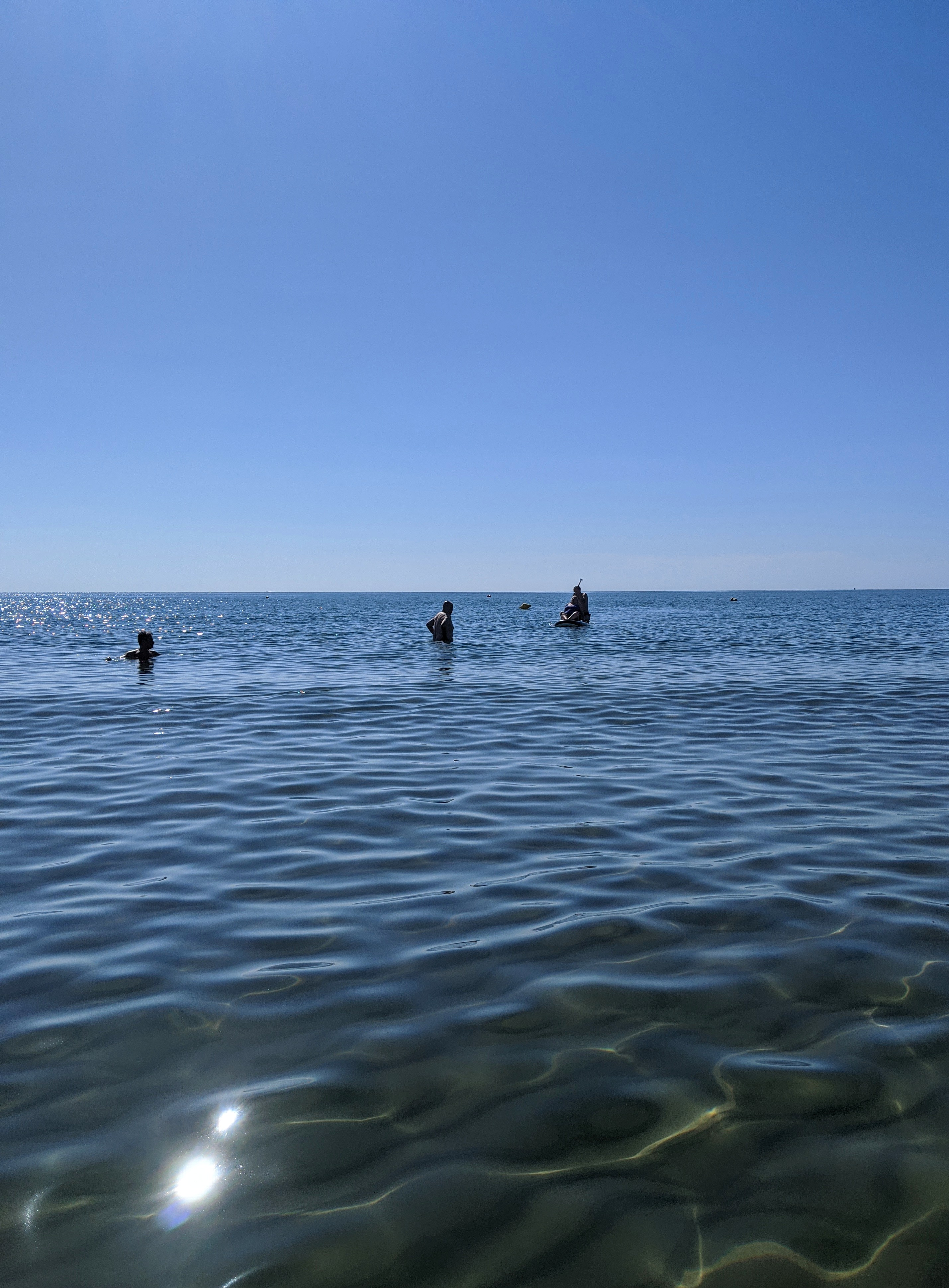 View of the Mediterranean sea in Puzol